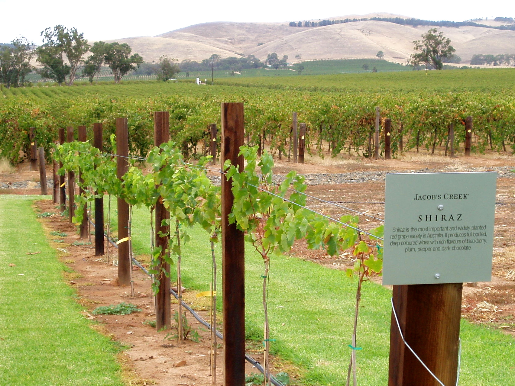 New Shiraz plantings in the South Australian wine region of Barossa Valley.